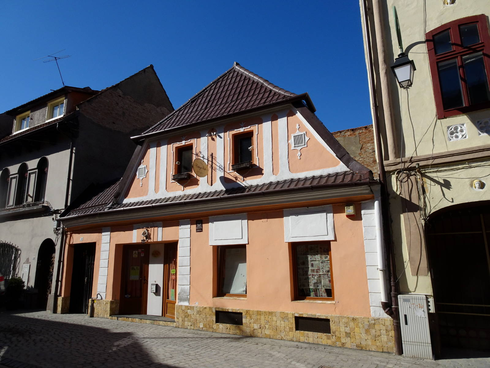 House on Postăvarului street in Brașov; house number 31